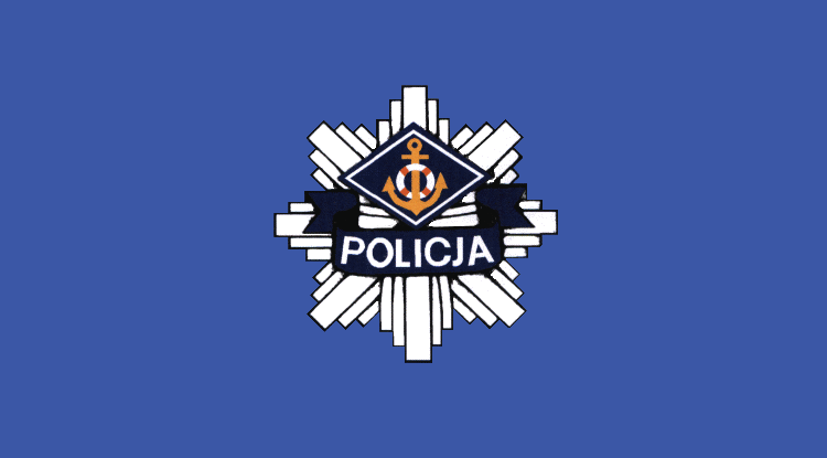 Polish Police vessels flag Note: introduced from 2 May 1996, with the star of 2/5 flag height, from 31 May 2005: 3/5 height.